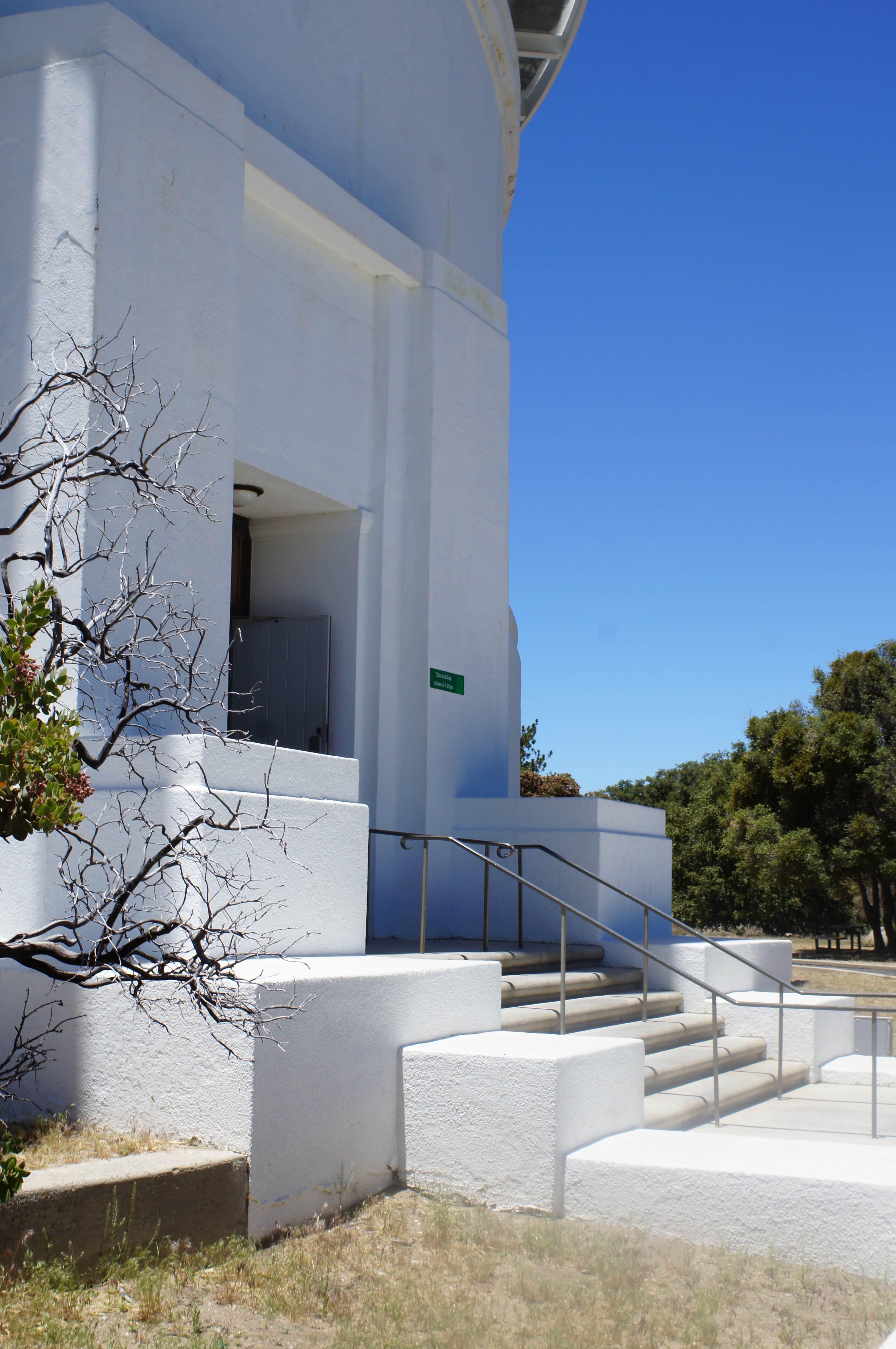 Hale Telescope, Palomar Observatory, California